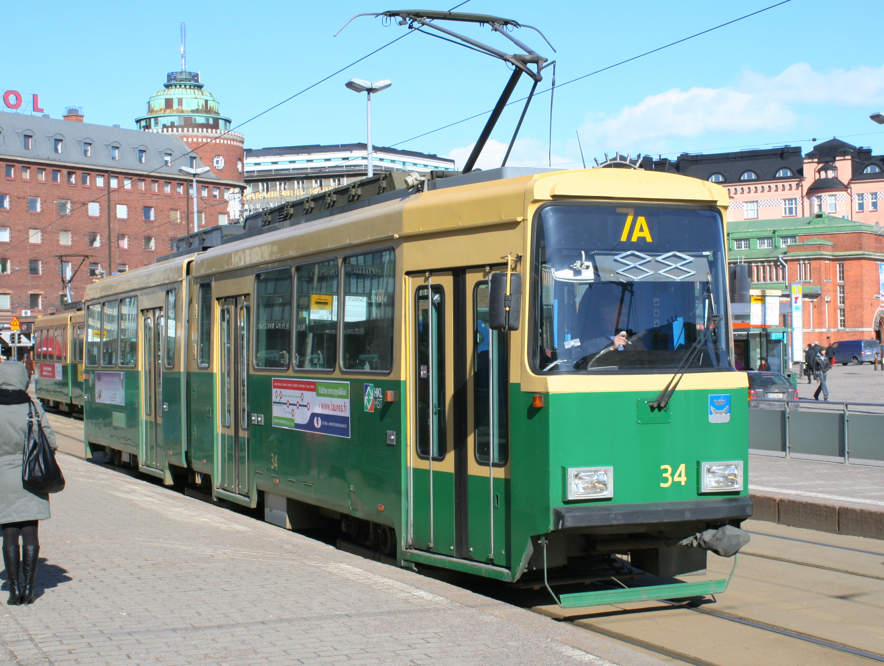 Helsinki City Transport tram number 34 in Hakaniemi on line 7A. Number 34 is an Nr I -type tram built by Valmet in 1973. Nr II -type tram number 97 on line 6 in the backround.